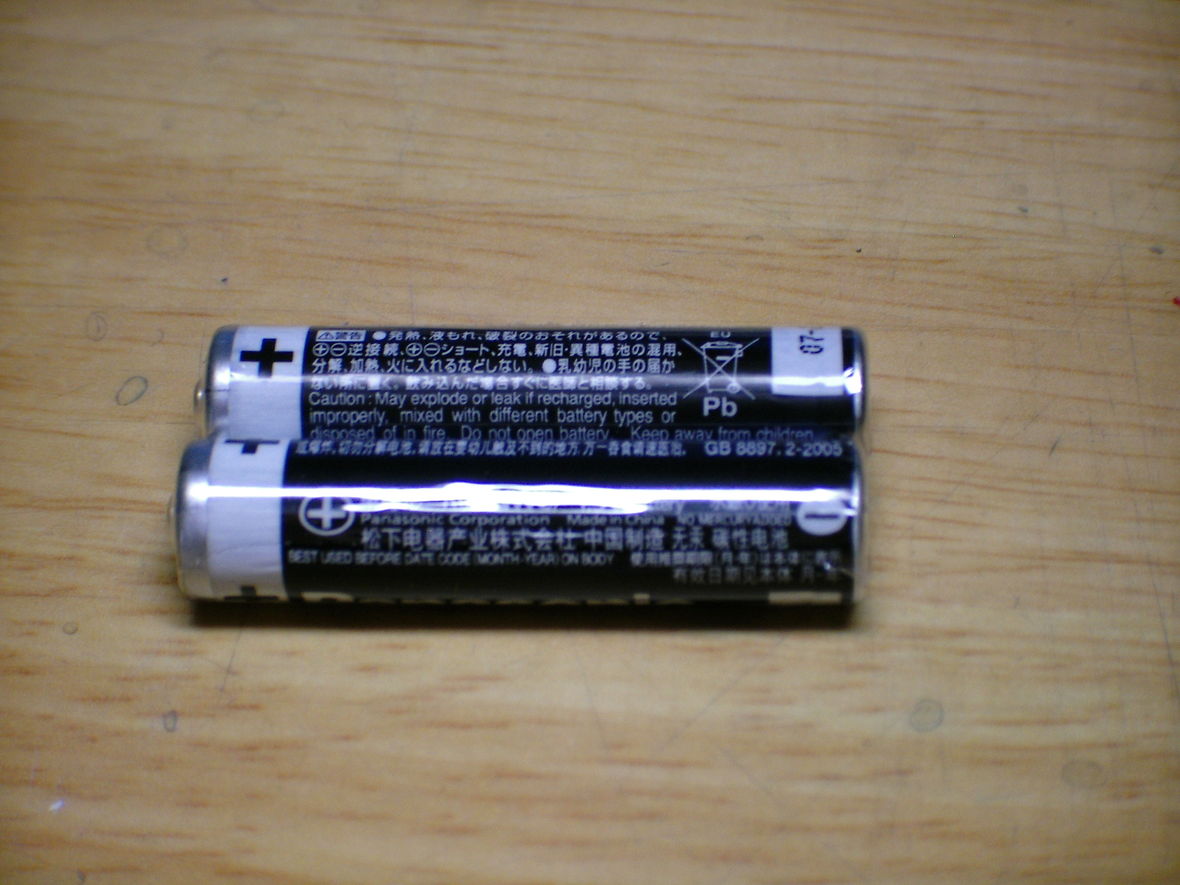 Panasonic's dry cells(Not for Retail trade) that written "Matsushita" in Chinese